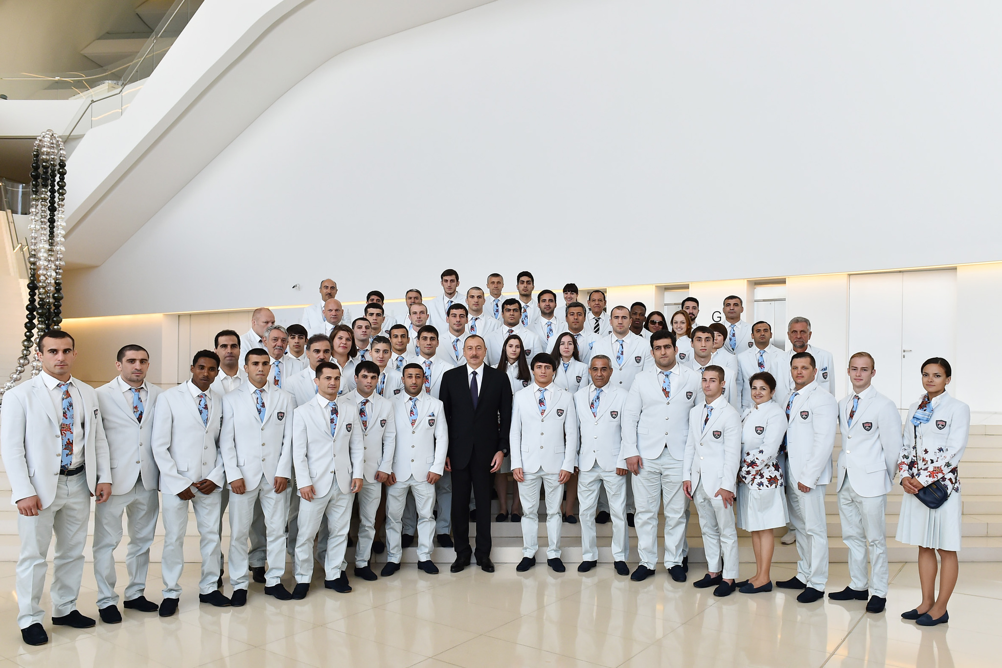 Seeing-off ceremony for Azerbaijani sportsmen to represent the country at the Rio 2016 Summer Olympic Games